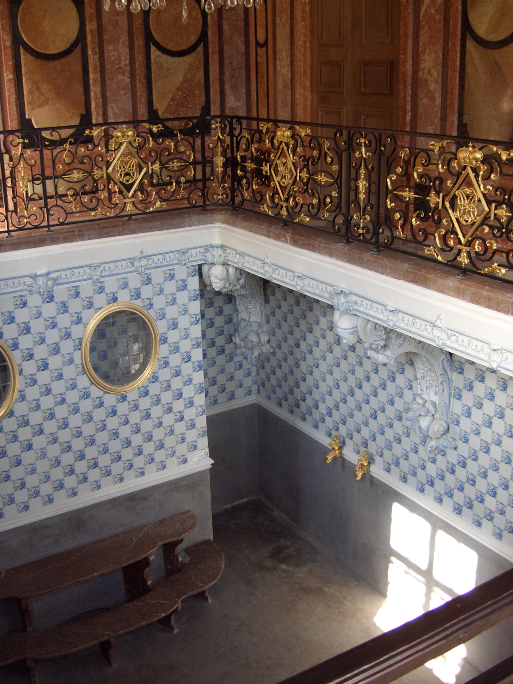 Bath of the Bavarian Electors in the "Badenburg" (1719-22)Nymphenburg Palace Park, Munich (Germany)